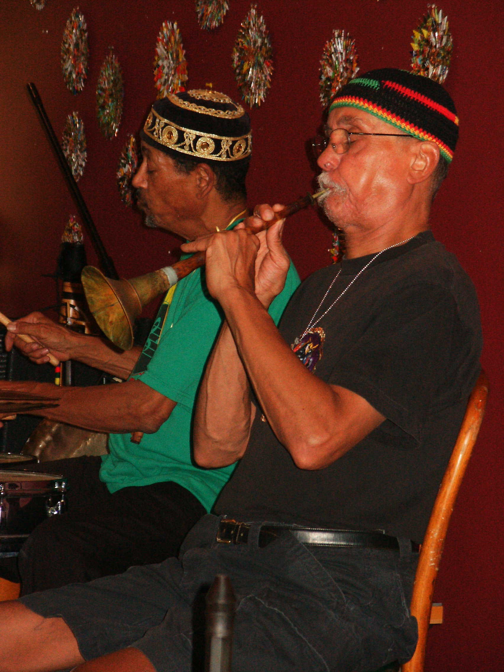 Bill Cole (right) playing an unidentified double-reed instrument. Concert performance with Warren Smith (left) and William Parker (not pictured). Place: Sangha in Takoma Park, Maryland.